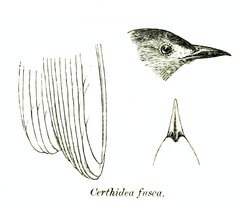 Warbler Finch; head from lateral, bill from dorsal, remiges tips from ventral